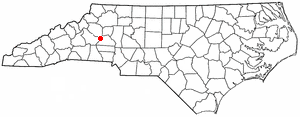 Category:North Carolina Dot Maps